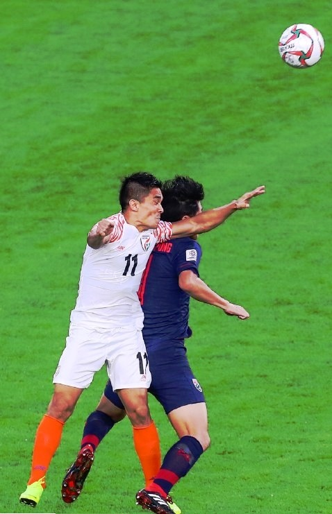 Indian skipper Sunil Chhetri in a melee against Thailanf at their Group match of AFC Asian Cup